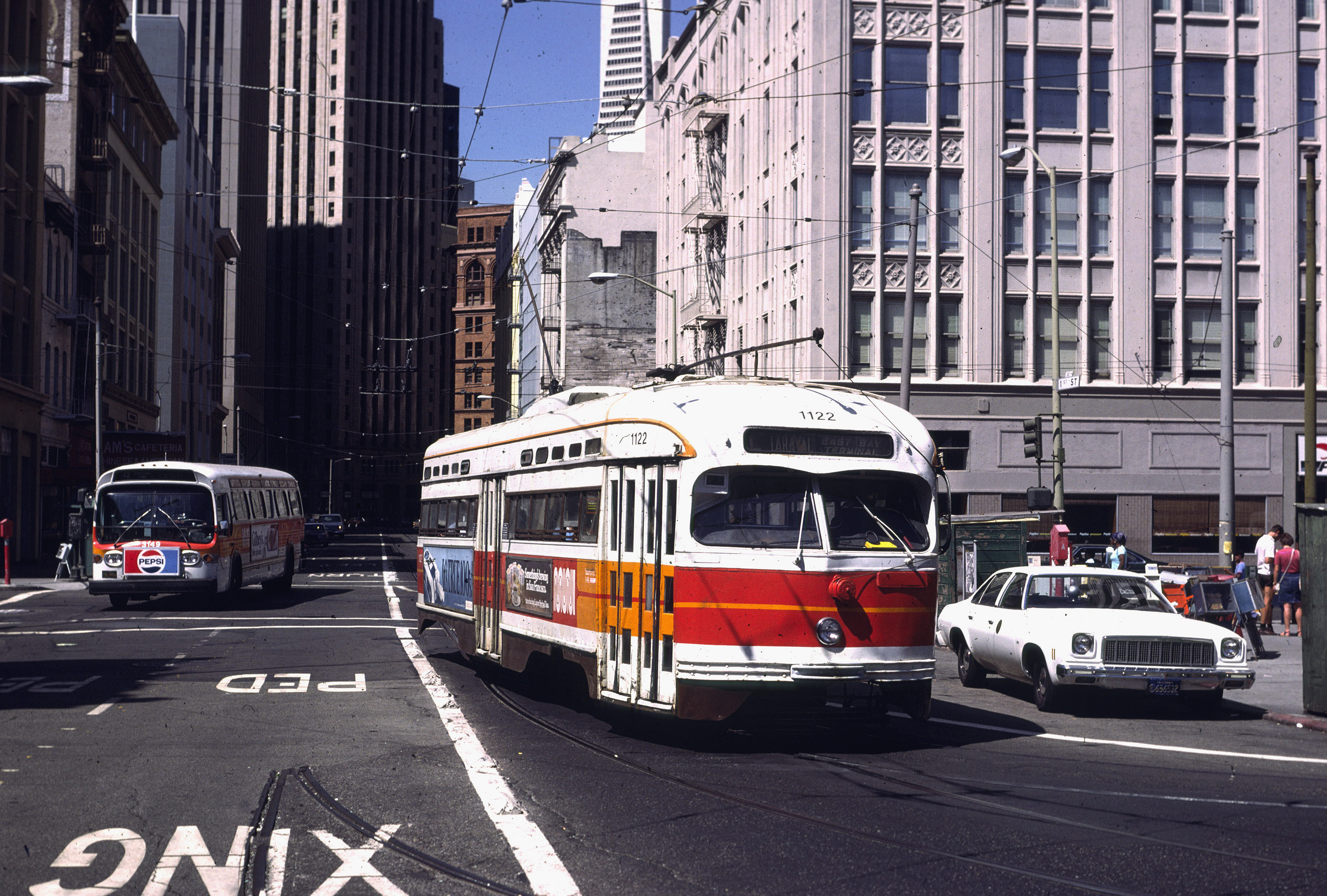 San Francisco PCC-type streetcar 1122 (ex-St. Louis, built in 1946 by St. Louis Car Co.), southbound on First Street just south of Mission Street, starting to turn into the terminus loop at Transbay Terminal, in 1982. It is in service on route L-Taraval.